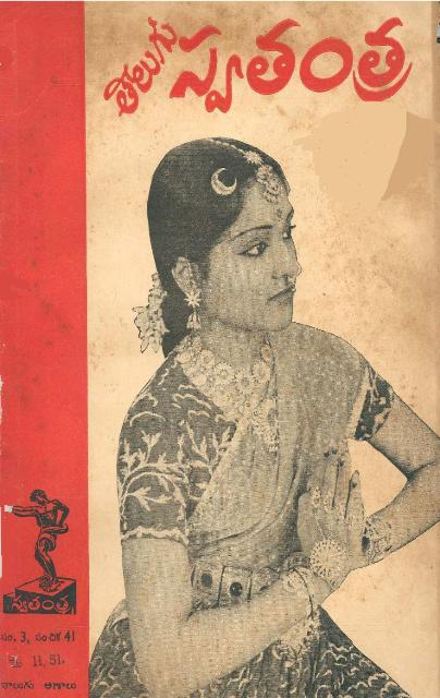 This is the cover page of Telugu Swatantra Weekly published by Khasa Subbarau This is the picture of Vaijayantimala the famous Indian Actress